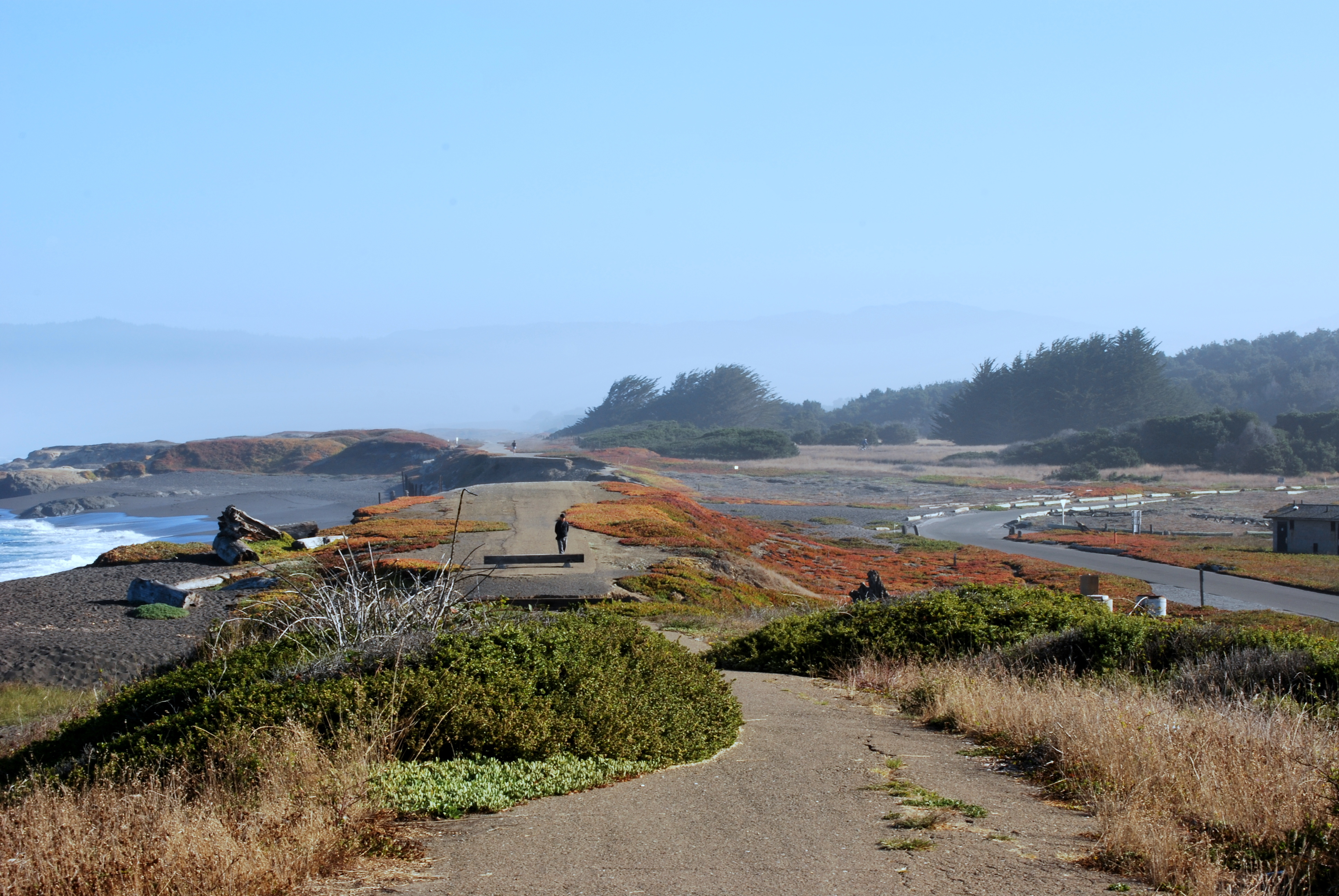 The Ten Mile Haul Road runs north of Fort Bragg, though MacKerricher State Park. This road was originally used to haul lumber to the mills and ports of Fort Bragg. Now days the road is almost entirely closed off to cars (some of it impassably or unstable) and limited to pedestrians and bikes only.